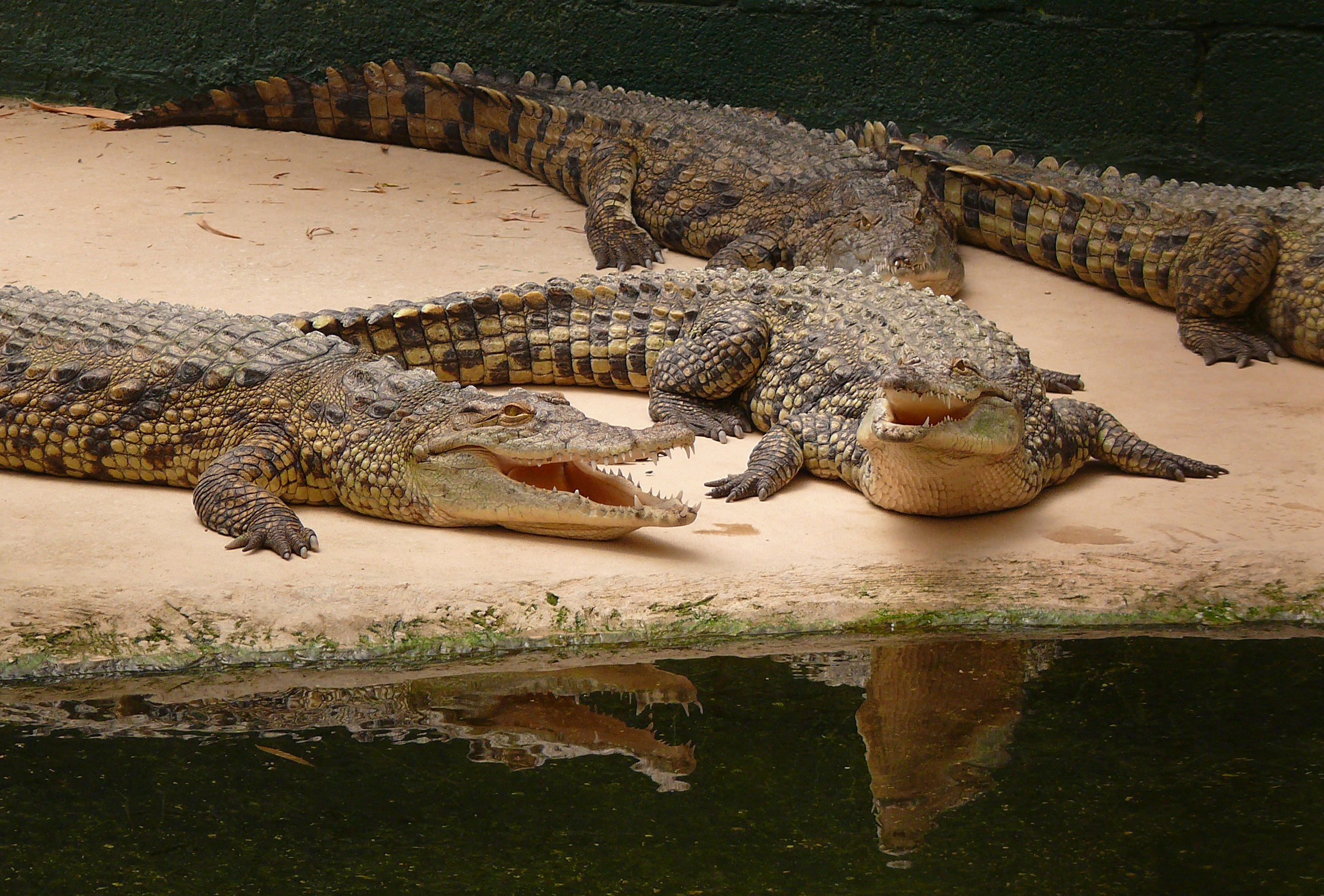 Juvenile Nile Crocodiles in Hamat Gader's Crocodilians Farm, Israel